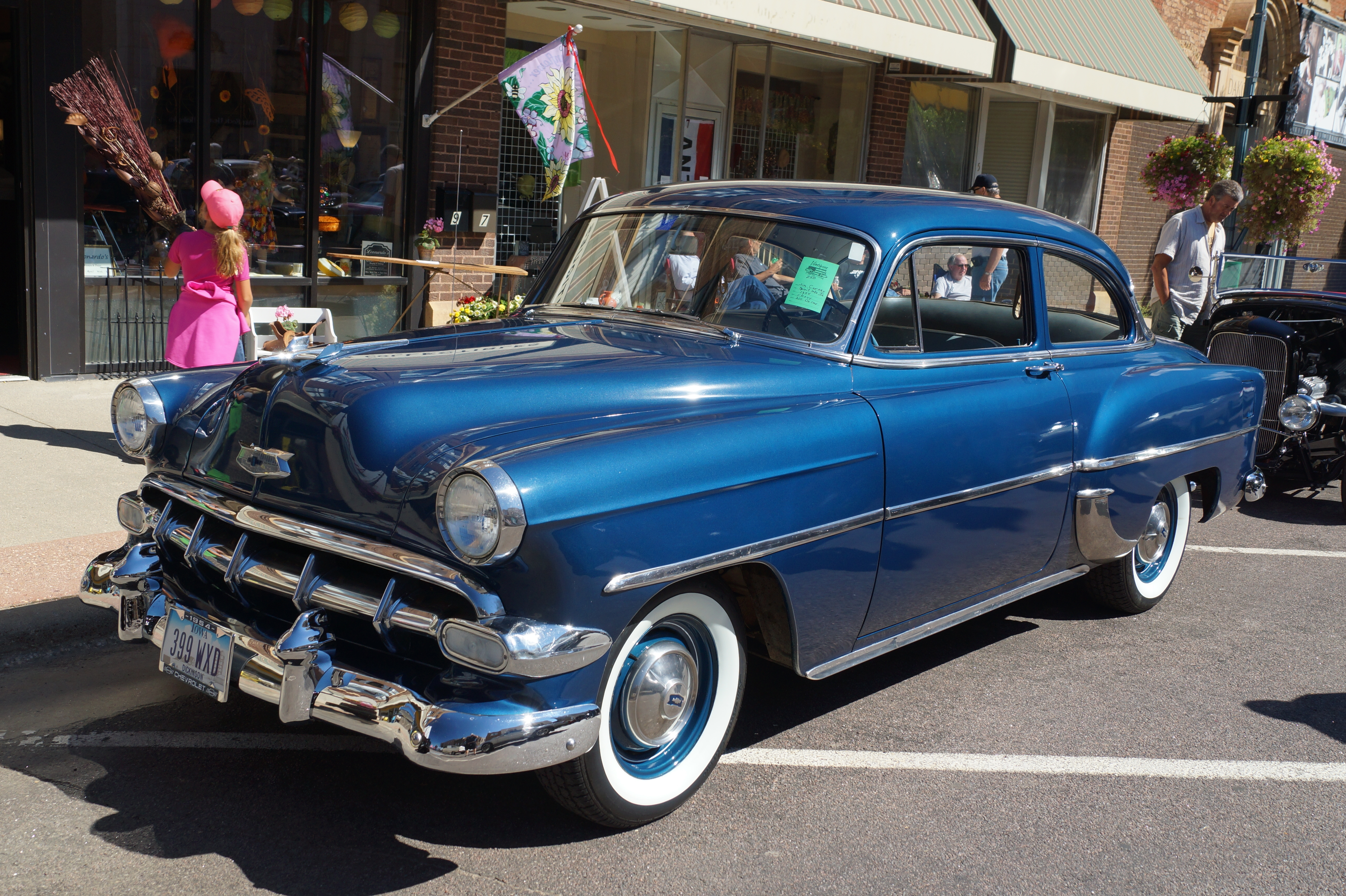 37th ANNIVERSARY VINTIQUES ROD RUN & KAMP OUT Show & Shine Uptown Watertown Watertown, South Dakota September 2016 Click here for more car pictures at my Flickr site.